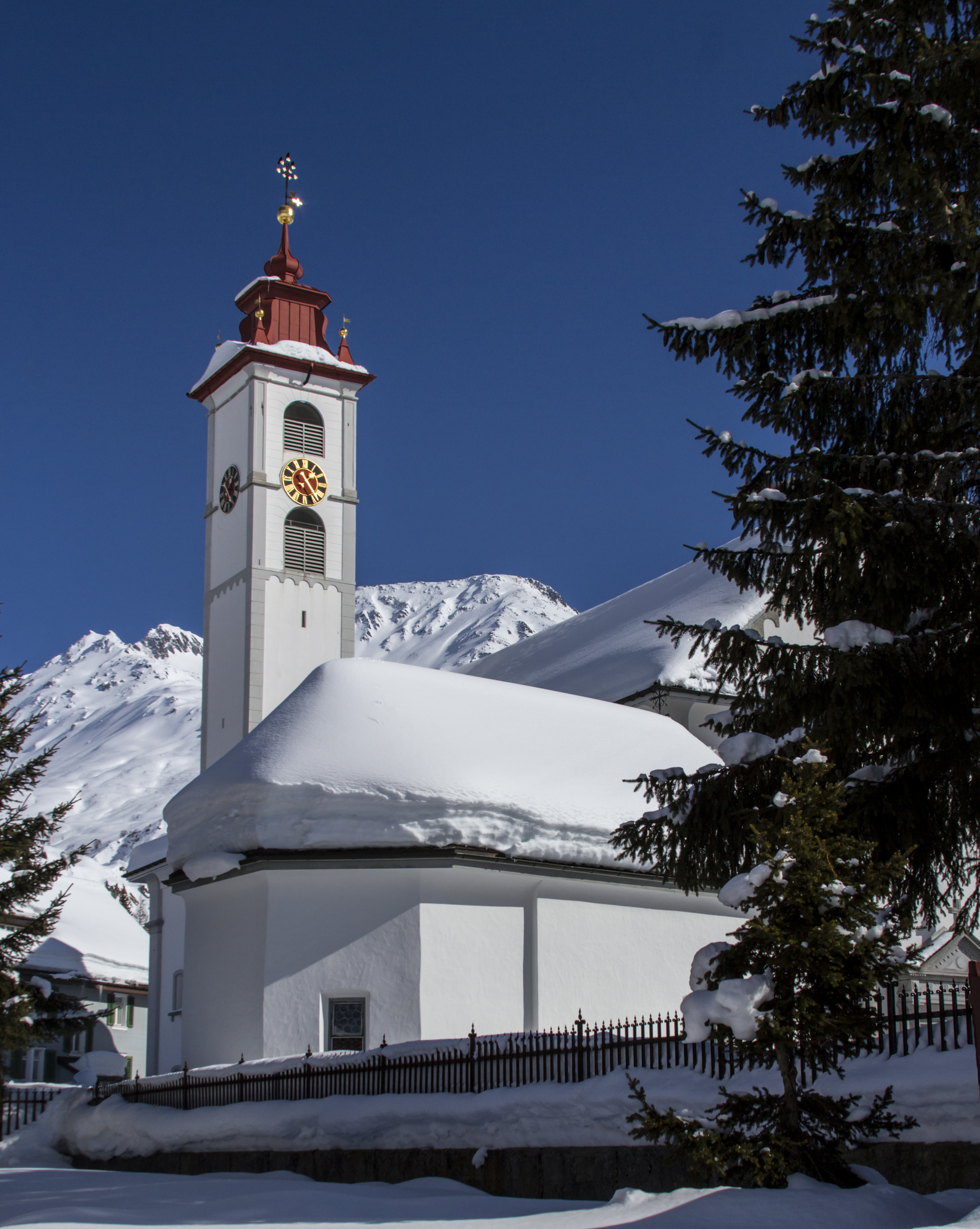 Katholische Kirche St. Martin